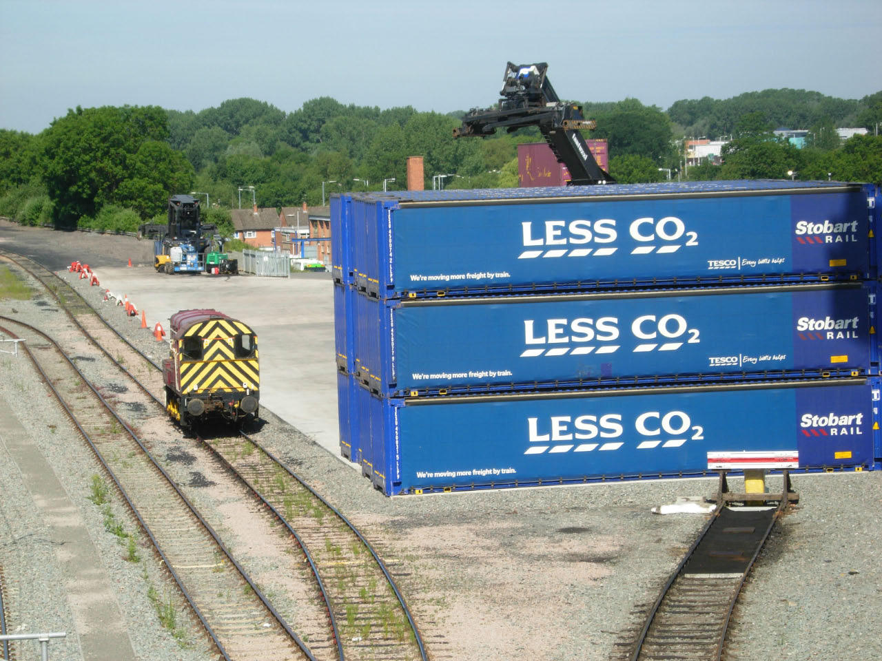 Rugby Yard, near to Rugby, Warwickshire, Great Britain. Containers used for Stobart Rail's Rugby - Mossend (Motherwell) service are stacked at the terminal in what were once extensive railway sidings to the west of Rugby station. More information is available here: Link